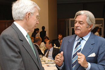 Luis Alberto Lacalle (right) with US embassador Frank Baxter.